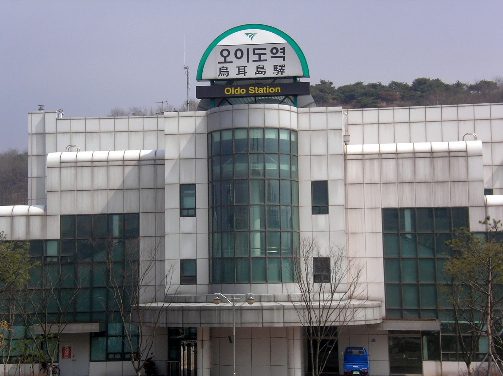 Oido Station in Seoul Subway Line 4